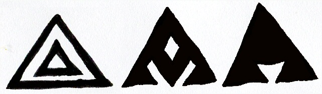 Amulet Kilim Motif, for good luck